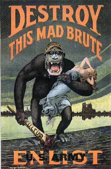 "DESTROY THIS MAD BRUTE - Enlist U.S. Army" is the caption of this World War I propaganda poster for enlistment in the US Army. A drooling, mustachioed ape wielding a club bearing the German word "Kultur" and wearing a pickelhaube helmet with the word "militarism" is walking onto the shore of America while holding a half-naked woman in his grasp (possibly meant to depict Liberty). This is a US version of an earlier British poster with the same image. Dated ca 1917.